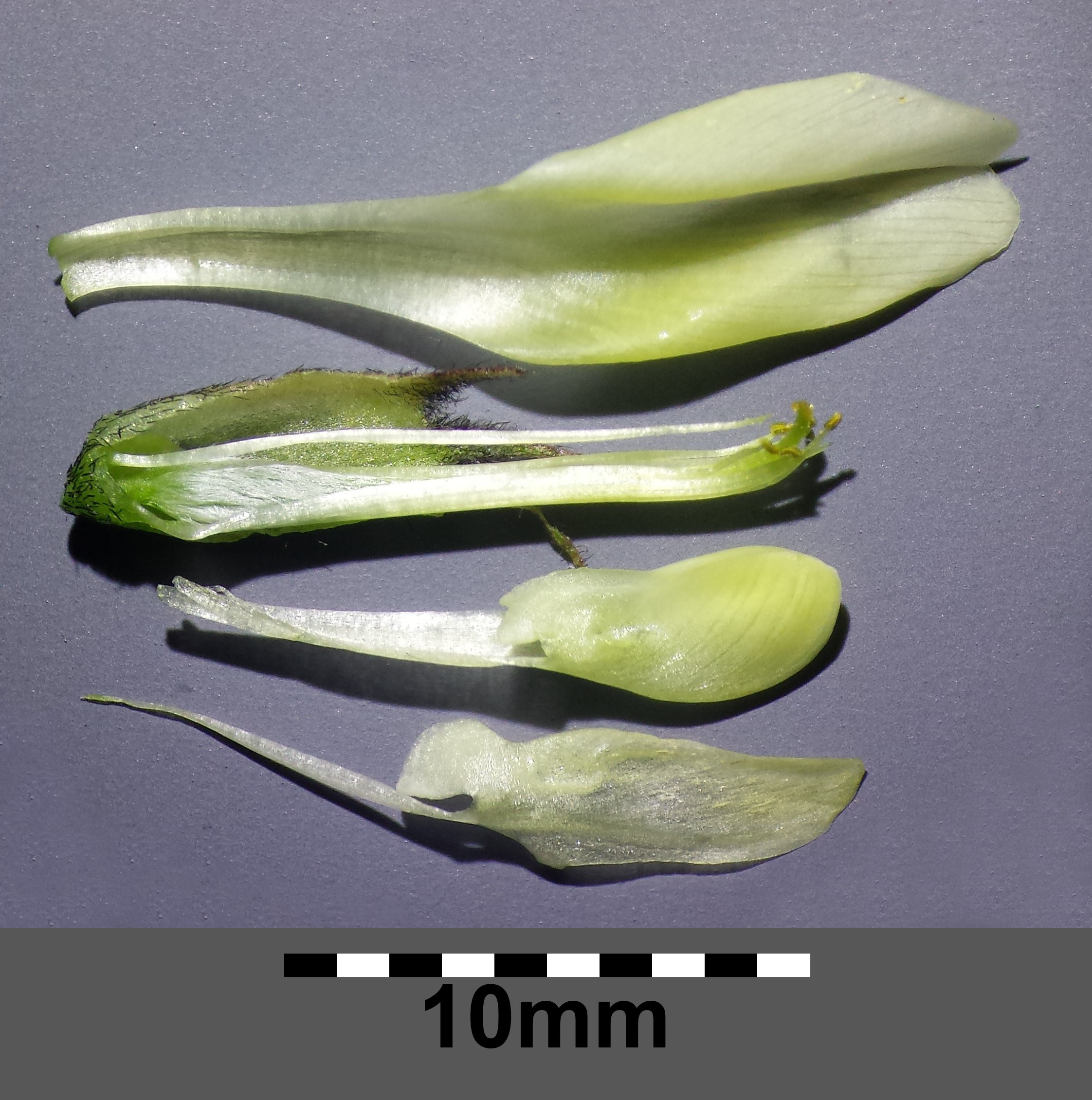 Flower, disassembled Taxonym: Astragalus cicer ss Fischer et al. EfÖLS 2008 ISBN 978-3-85474-187-9 Location: Neue Donau, Vienna-Floridsdorf - ca. 160 m a.s.l. Habitat: dry meadows